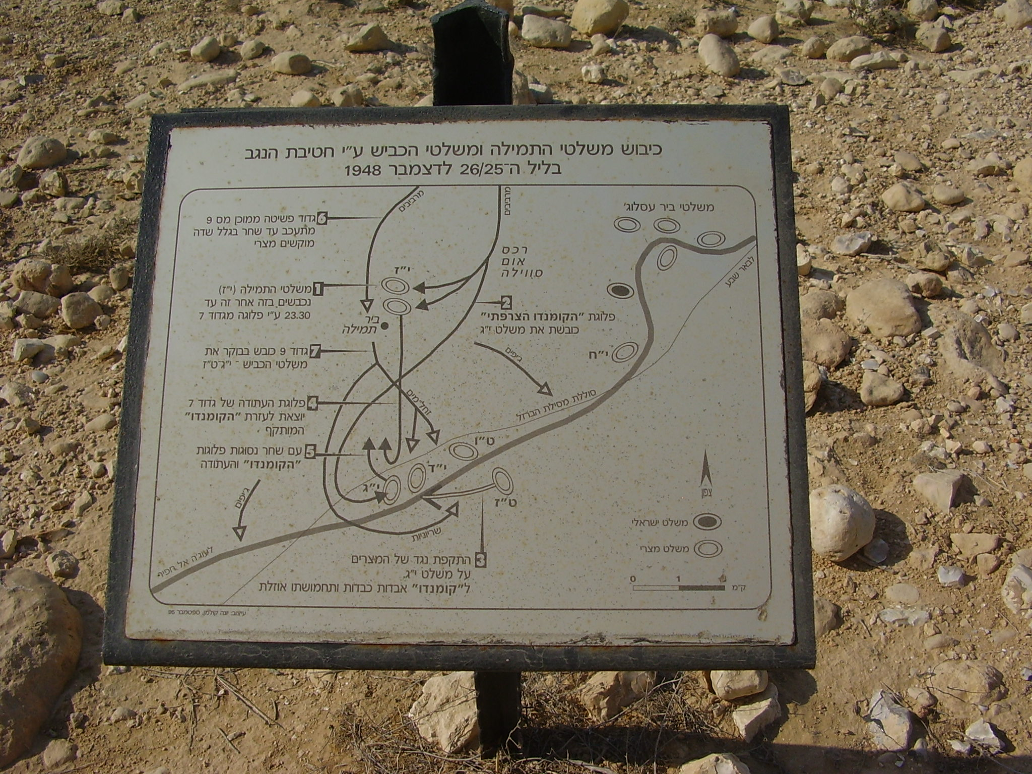 French commandos Lookout in the Negev